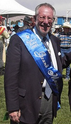 Las Vegas Mayor Oscar Goodman at the NGRA BigHorn Rodeo 2003.